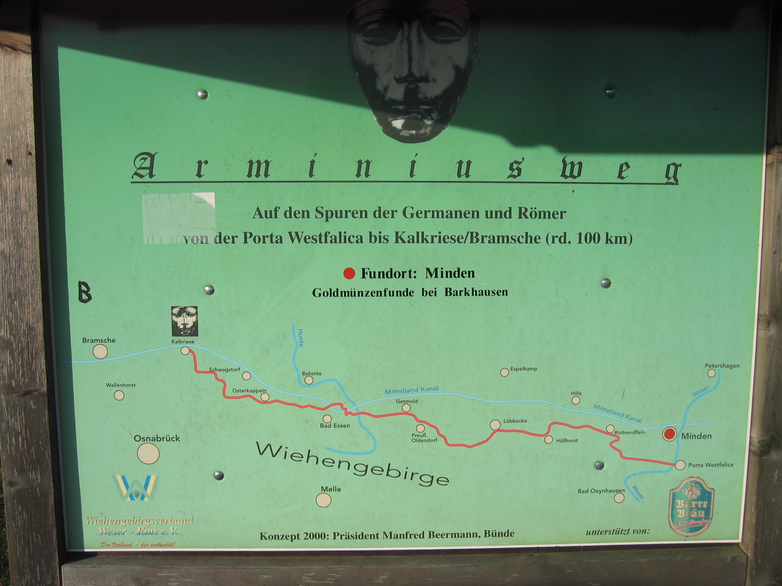 Map near the Wilhelm I monument near Porta Westfalica, District of Minden-Lübbecke, North Rhine-Westphalia, Germany.